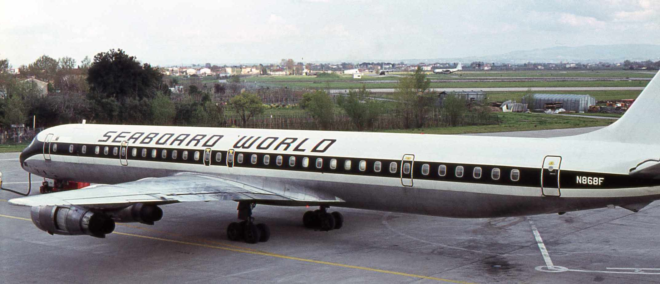 Seaboard World Airlines Douglas DC-8 N868F taken at Pisa Airport in 1974.